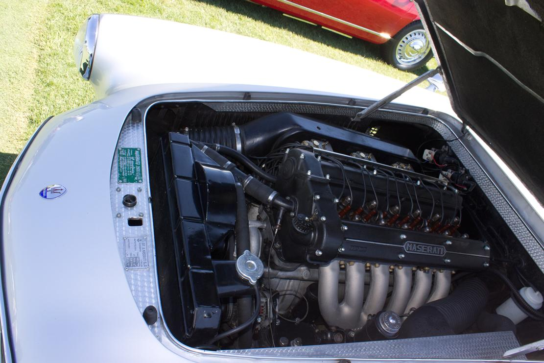 Engine bay of a Maserati 3500 GT. Taken at Concorso Italiano 2014.